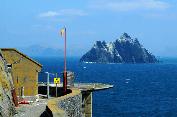 Little Skellig viewed from Skellig Michael (Sceilig Mhichíl). Lighthouse helicopter platform in foreground. Photo by Thorbjorn Liell / Eireway